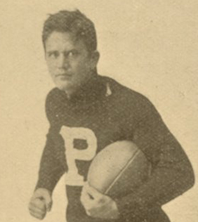 Cropped photo of Wylie Glidden Woodruff in 1893 on the Penn football team.